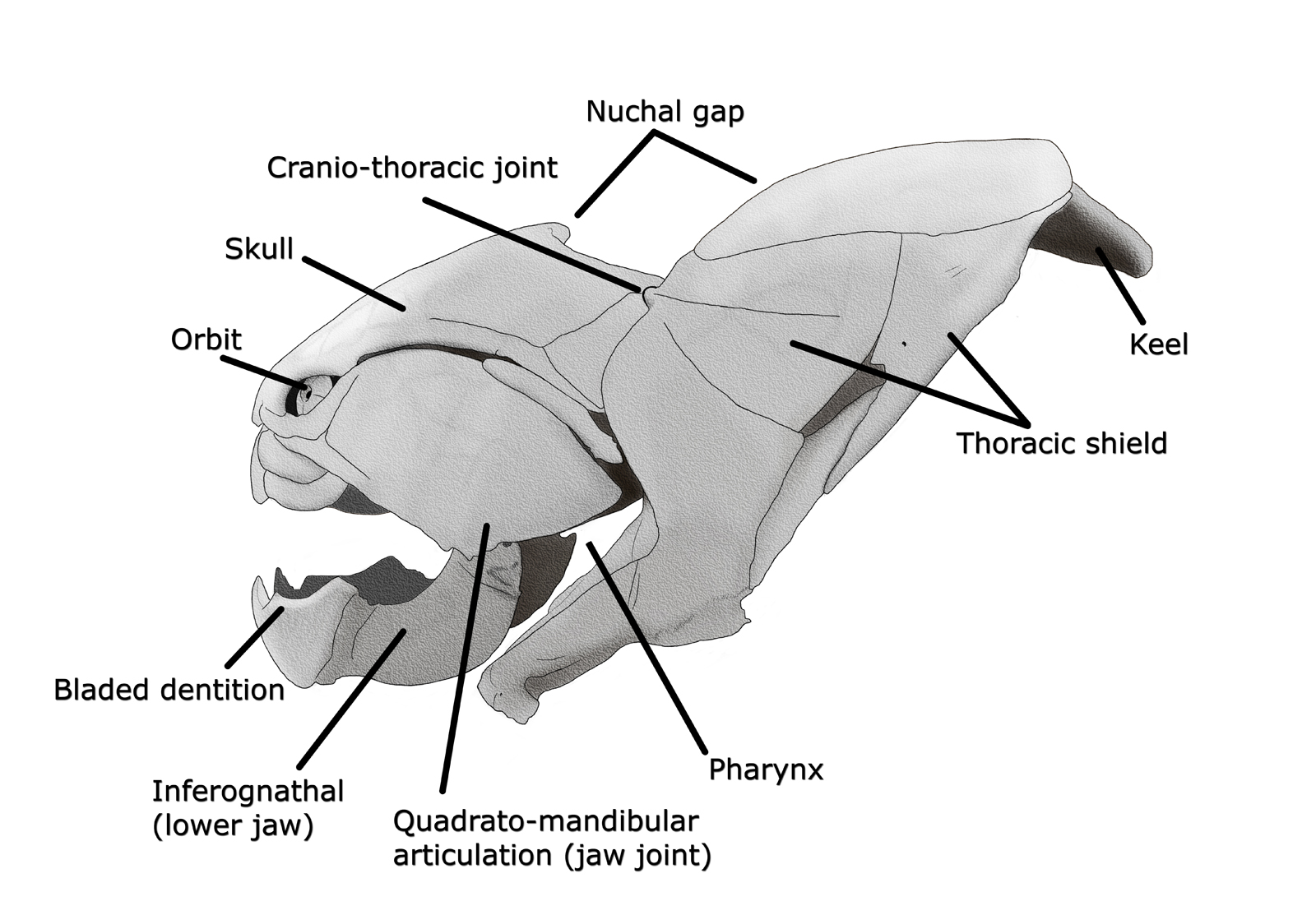 A skull diagram of the placoderm fish Dunkleosteus. • Based on figure 1 in Anderson, P.S.L. and Westneat, M.W. (2006) "Feeding mechanics and bite force modelling of the skull of Dunkleosteus terrelli, an ancient apex predator", Biology letters, pp 76-79. NOTE: I often update my images. If you want to have any of my images on a website, please (if possible) don’t host/save it to the website server. I’d prefer it if the image's Wikimedia URL is used. This means that if I update an image, it will be updated on the site as well. Thanks.